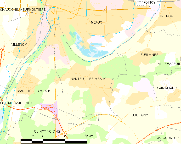 Map of French municipality Nanteuil-lès-Meaux